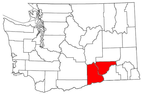 Locator map of the Kennewick-Richland-Pasco Metropolitan Statistical Area in the southeastern part of the U.S. state of Washington.